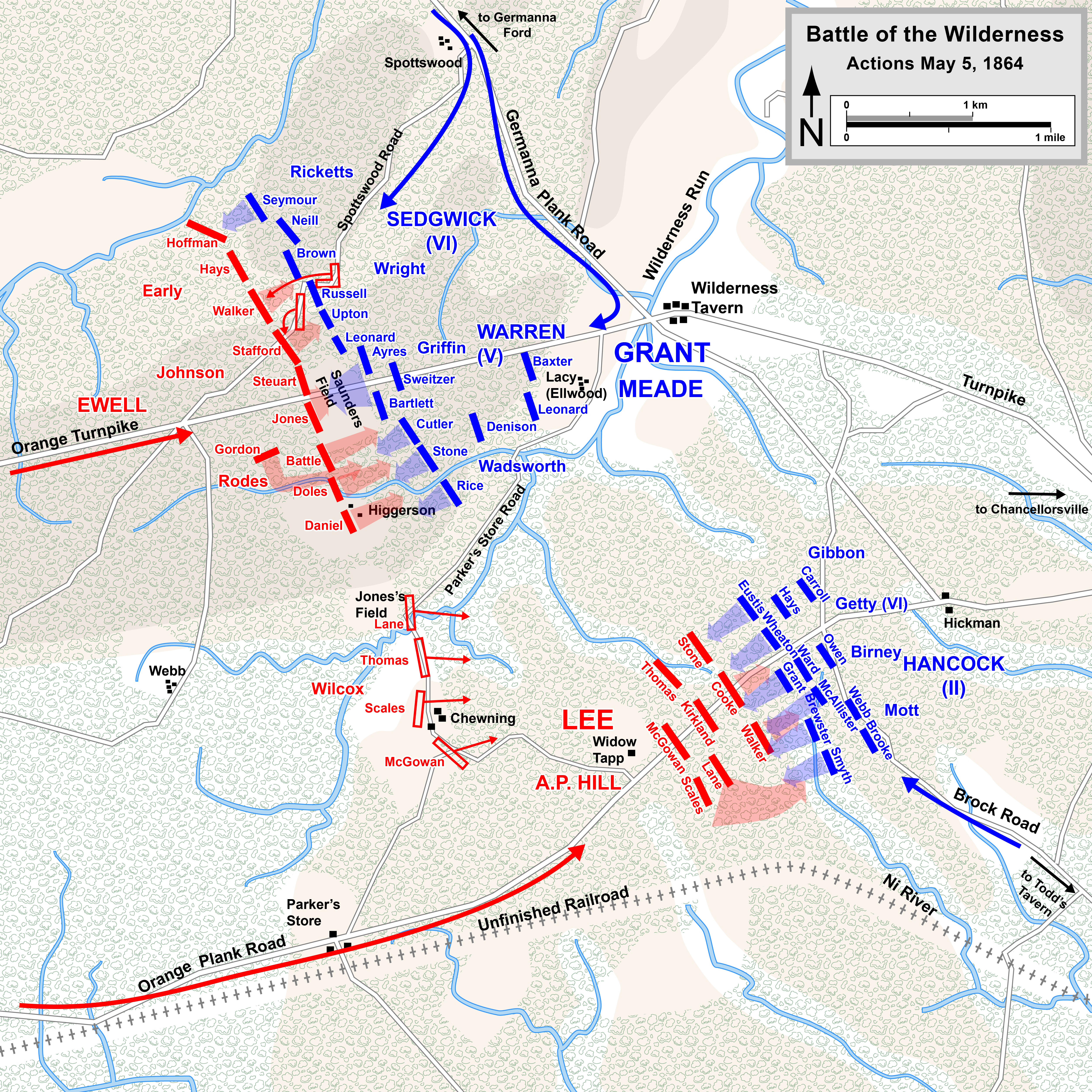 Map of a portion of the Battle of the Wilderness of the American Civil War. Drawn in Adobe Illustrator CC 2015 by Hal Jespersen. Graphic source file is available at